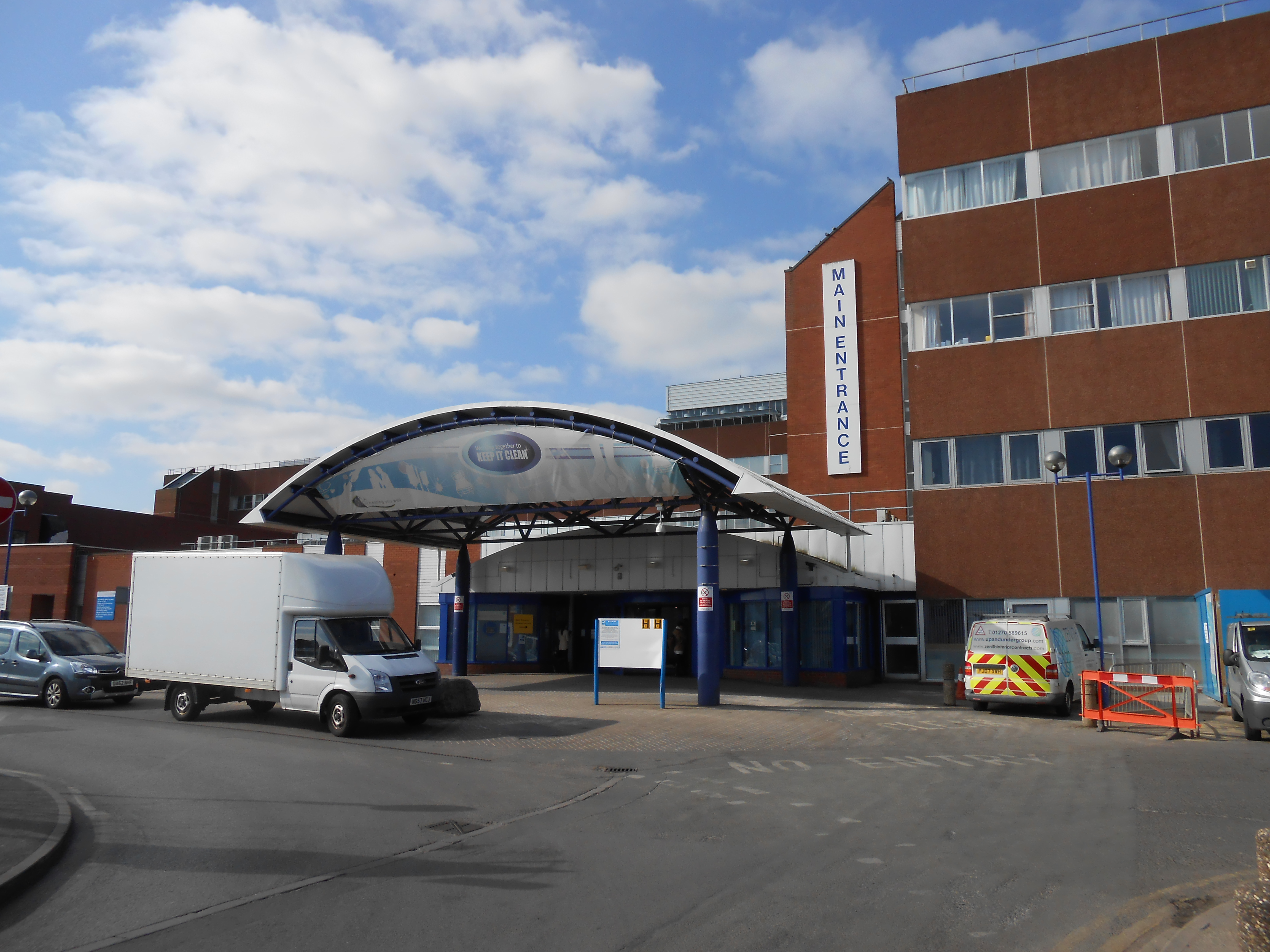 Photo taken at Arrowe Park Hospital, Wirral, Merseyside, England.